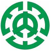 Yamanouchi Nagano chapter